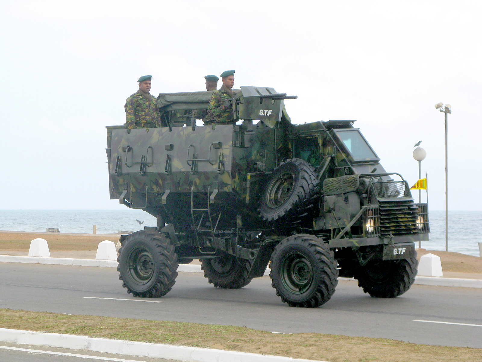 Buffel Armored Personnel Carrier - Sri Lanka Army